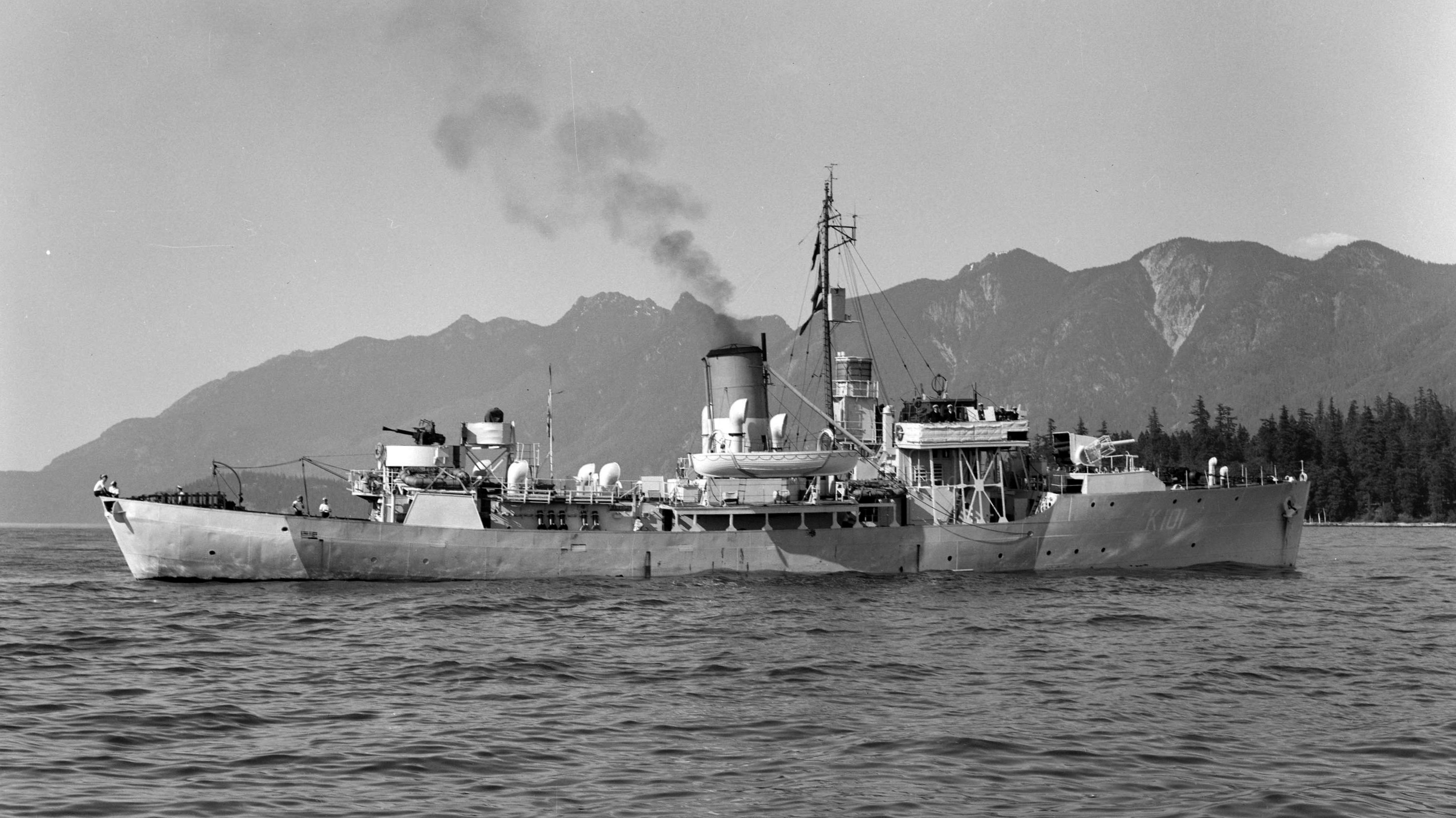 HMCS Nanaimo in Vancouver harbour.